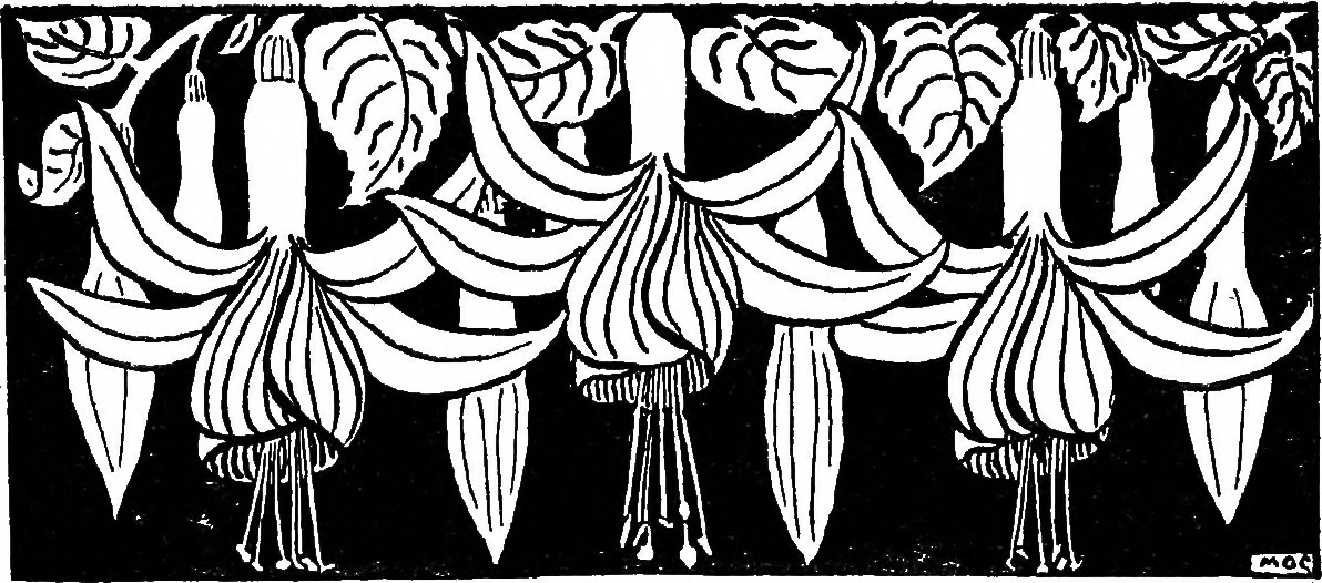 Title: Gardens, their form and design Year: 1919 (1910s) Authors: Wolseley, Frances Garnet Wolseley, viscountess, 1872- Subjects: Gardens Publisher: London, E. Arnold Text Appearing Before Image: ' Text Appearing After Image: FORAVU. FLO\VER BEDS IN making use of the expression "formal" in connection with flower-beds, it is necessary to point out two things. The opinion of the writer is, that formality in a garden should only be found in the immediate neighbourhood of a house. When we get far from buildings and the straight lines which they bring with them, all hedges, paths, and flower- beds should assume irregular lines, so long as they are natural ones and in no sense exaggerated. For we have to guard as much against the circuitous and exaggeratedly deviating carriage drive as against the star-shaped, mosaic- planted flower-bed. Both are equally undesirable if in any sense overdone. They are sometimes allowable when carried out in moderation and placed in proper surround- ings. Even those who are strongly opposed to formality of any kind in a garden will agree that in the vicinity of a house, where the lines of necessity are straight and the walls are at right angles, it is more restful to have paths, hedges, and beds in accord with these lines. When pictures are hung upon a wall, we know that if all the frames follow one line the room is restful. So it is in a garden. The next point to consider is, that by a " formal flower- 38